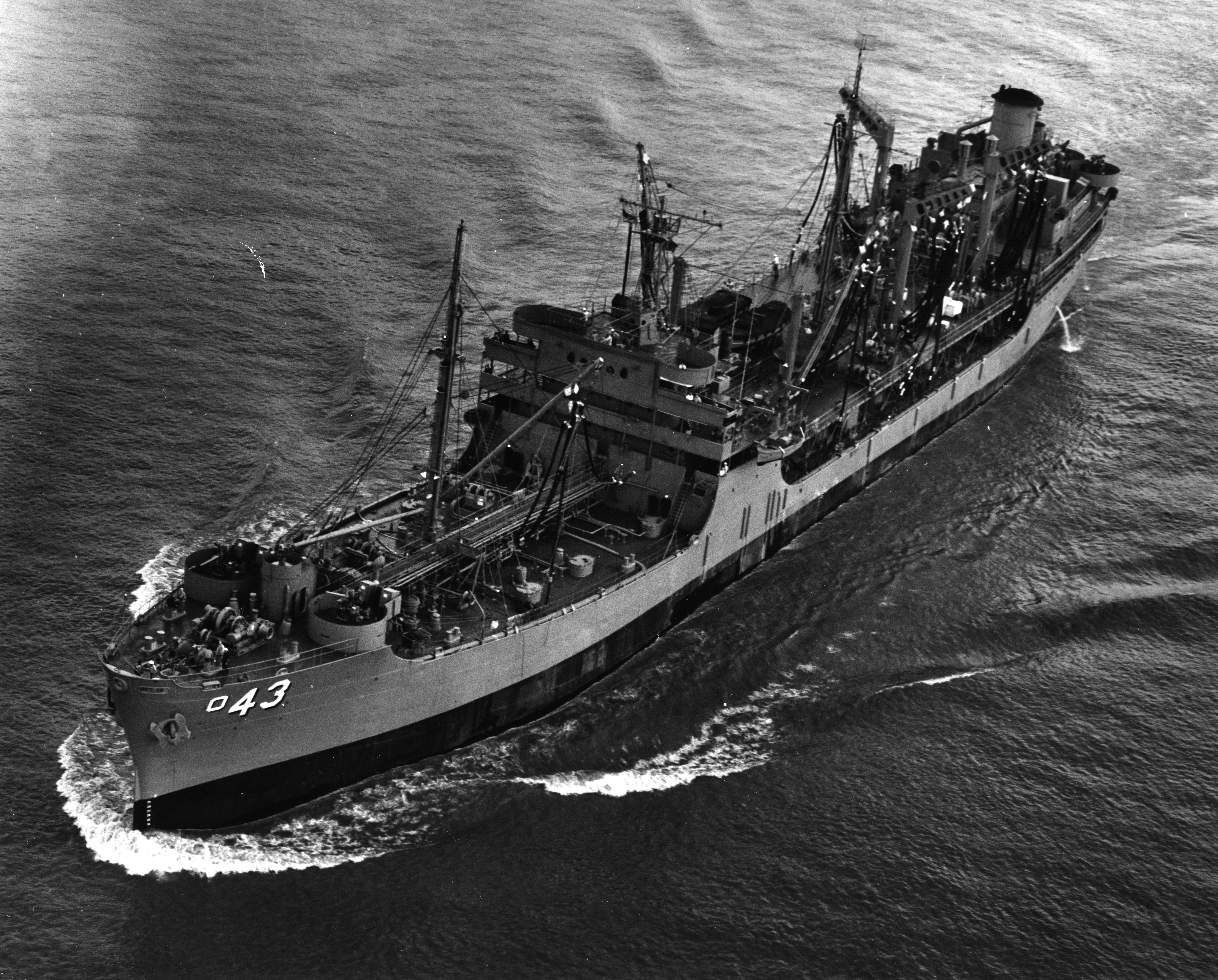 The U.S. Navy fleet oiler USS Tappahannock (AO-43) underway. Tappahannock had been decommissioned at Orange, Texas (USA), on 18 November 1957. In 1966, she was towed to the Naval Support Activity, Algiers, Louisiana (USA), and fitted out for active service. Tappahannock was recommissioned at Algiers on 31 May 1966. The ship got underway for the west coast on 11 July, and arrived at San Diego, California (USA), on 6 August 1966.